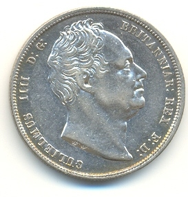 William IV of Great Britain on coin